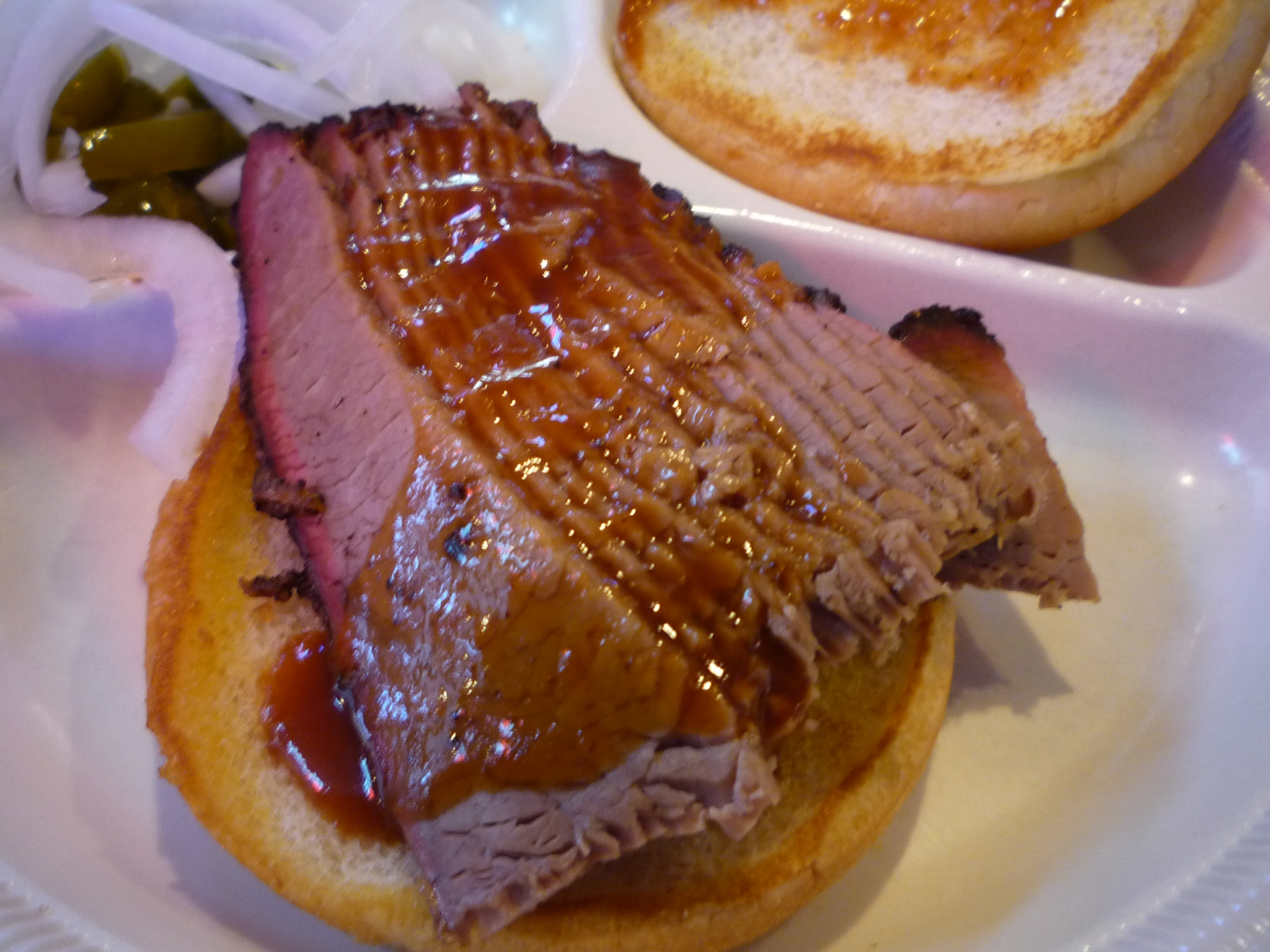 This was the brisket sandwich I got at Cousin's BBQ at the Dallas airport. Even though it was the airport, they carved it while I watched. Pretty darned good.